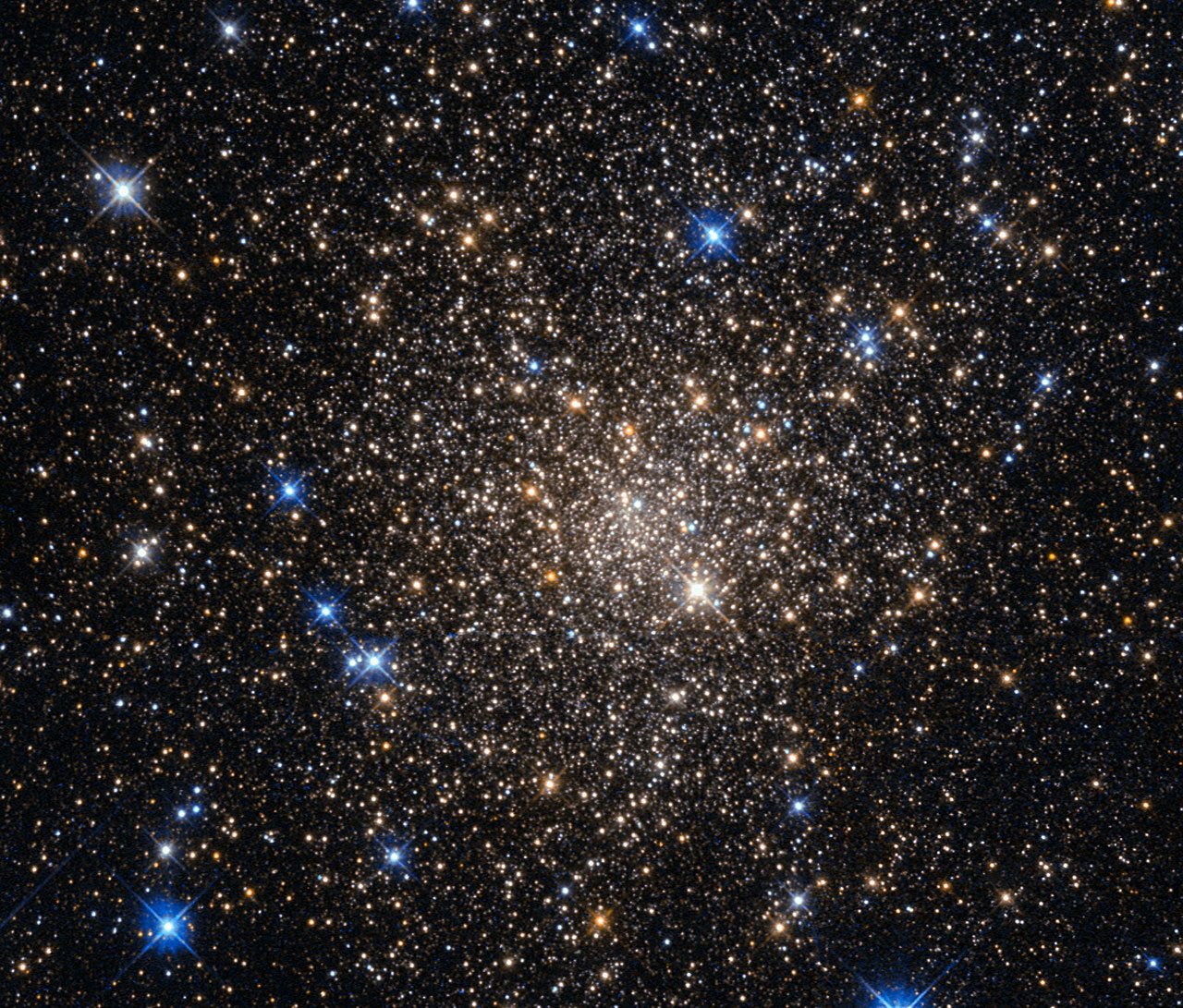 This image, taken with the Wide Field Planetary Camera 2 on board the NASA/ESA Hubble Space Telescope, shows the globular cluster Terzan 1. Lying around 20 000 light-years from us in the constellation of Scorpius (The Scorpion), it is one of about 150 globular clusters belonging to our galaxy, the Milky Way. Typical globular clusters are collections of around a hundred thousand stars, held together by their mutual gravitational attraction in a spherical shape a few hundred light-years across. It is thought that every galaxy has a population of globular clusters. Some, like the Milky Way, have a few hundred, while giant elliptical galaxies can have several thousand. They contain some of the oldest stars in a galaxy, hence the reddish colours of the stars in this image — the bright blue ones are foreground stars, not part of the cluster. The ages of the stars in the globular cluster tell us that they were formed during the early stages of galaxy formation! Studying them can also help us to understand how galaxies formed. Terzan 1, like many globular clusters, is a source of X-rays. It is likely that these X-rays come from binary star systems that contain a dense neutron star and a normal star. The neutron star drags material from the companion star, causing a burst of X-ray emission. The system then enters a quiescent phase in which the neutron star cools, giving off X-ray emission with different characteristics, before enough material from the companion builds up to trigger another outburst.